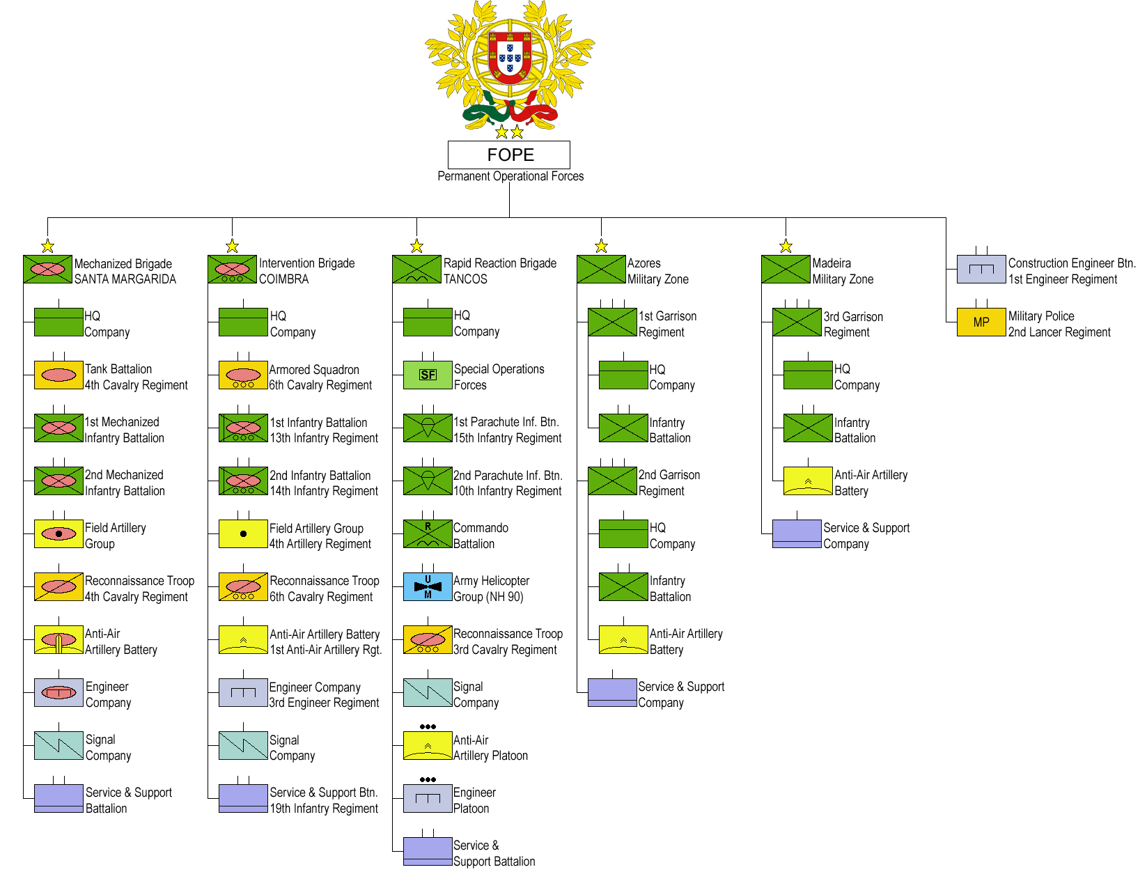 Structure of the Permanent Operational Forces of the Portuguese Army- Portuguese version at Image:Exército Português.png